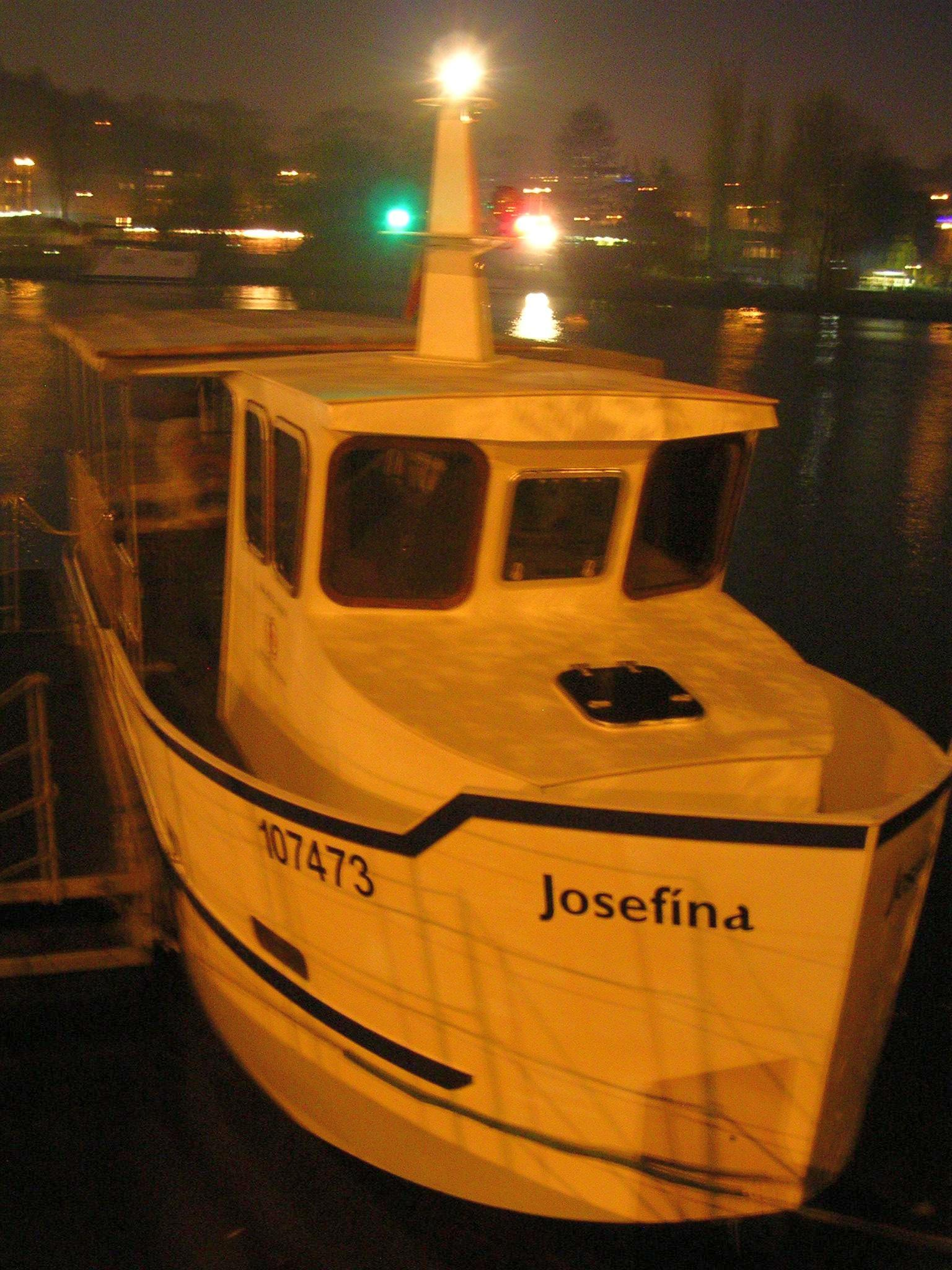 Zlíchov, Prague. Ferry P3 Zlíchov – Podolí.